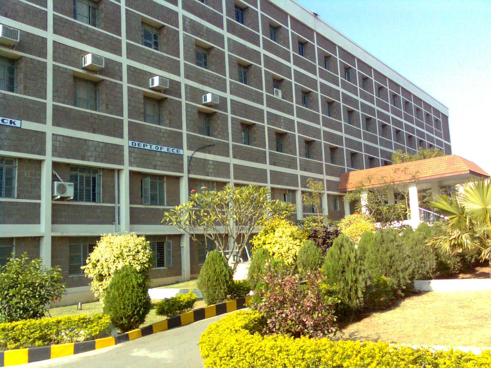 mgit...